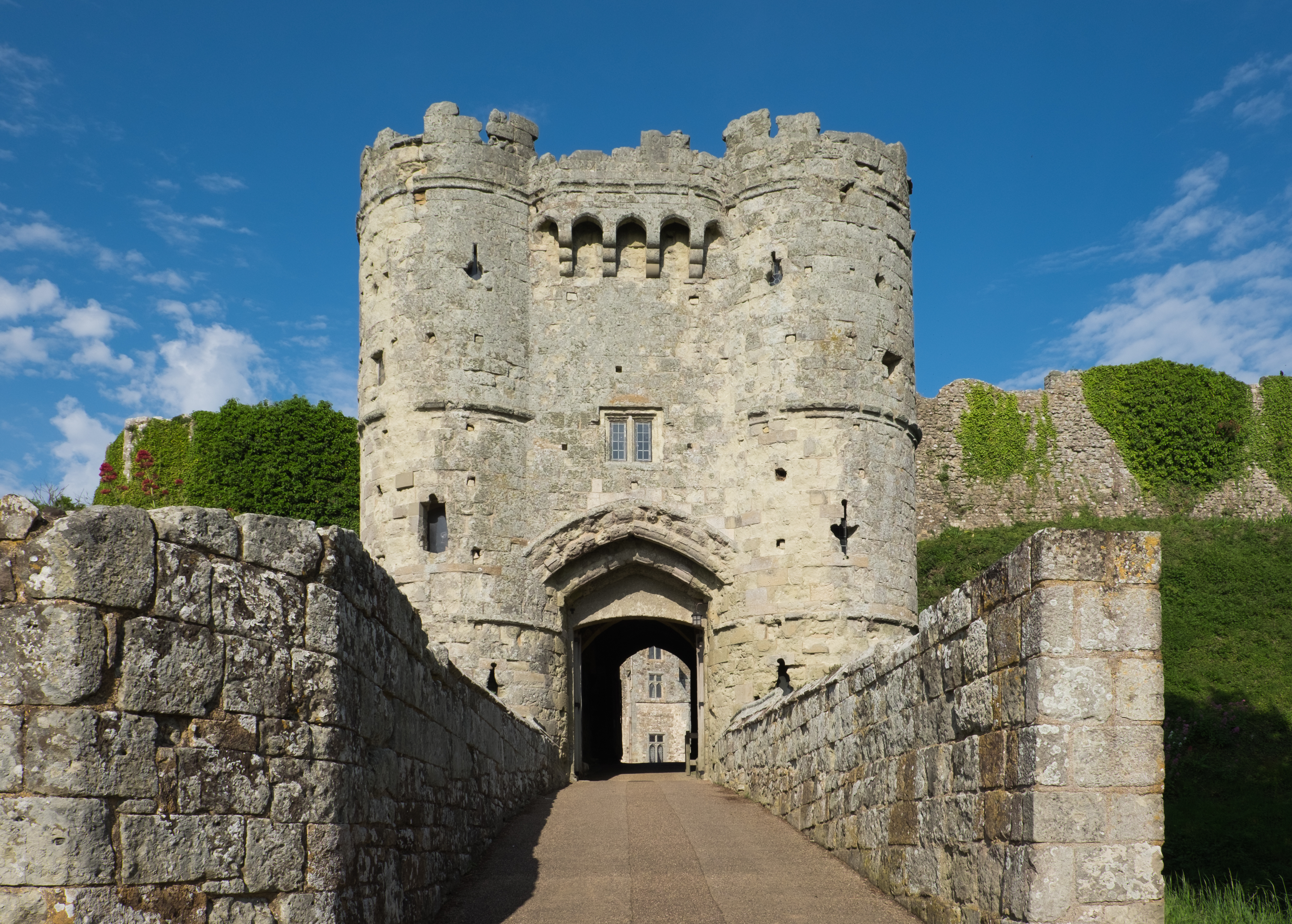 Carisbrooke Castle gatehouse, Isle of Wight, looking in from the east. This tower, built in 1464, is a grade I listed building in England.